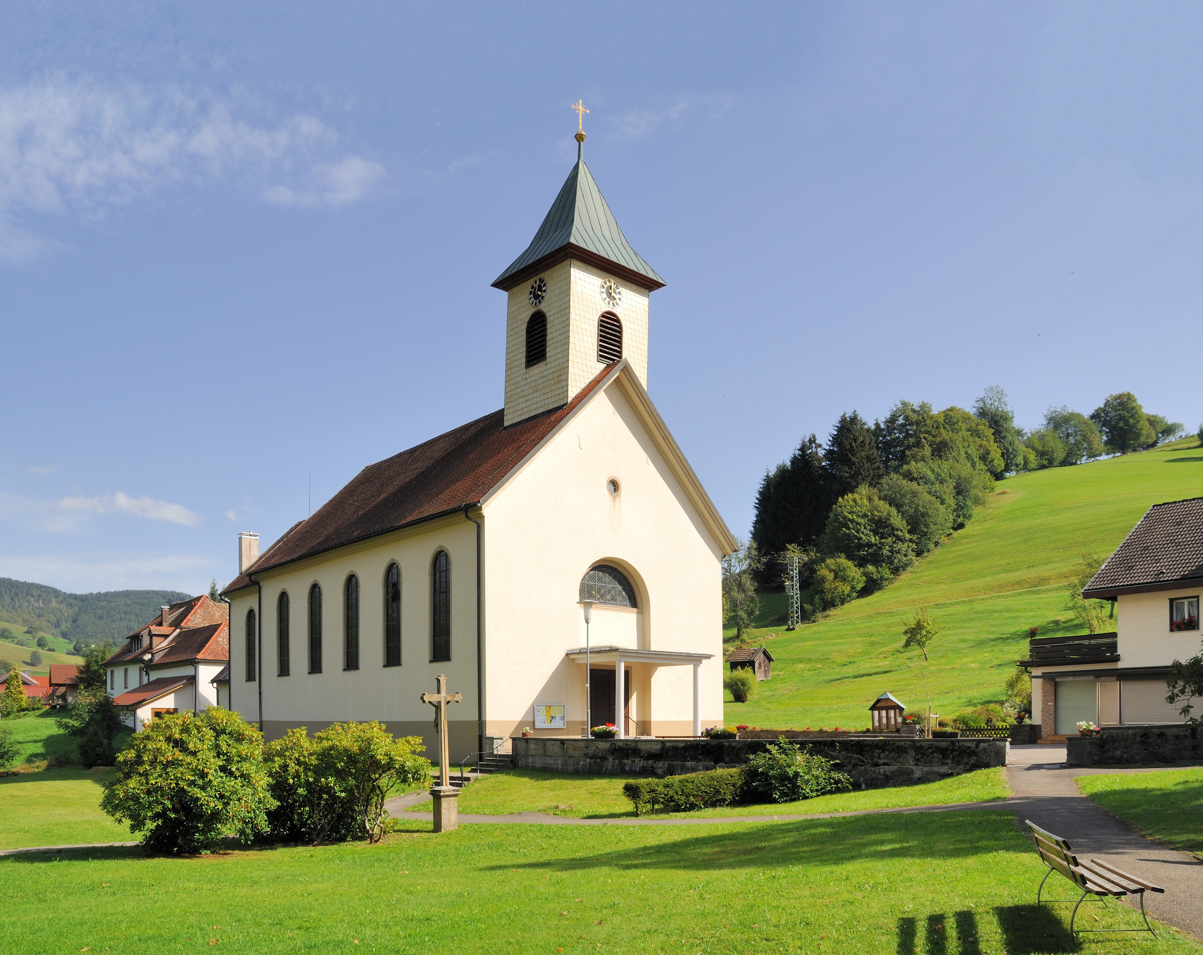 Wieden: All Saints Church